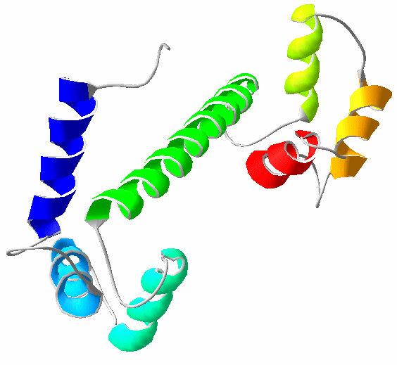 Image by uploader, created using SwissPDB viewer, from PDB file: Source: paramecium recombinant form expressed in (Escherichia coli) Authors: C. Ban; B. Ramakrishnan; K.-Y. Ling; C. Kung; M. Sundaralingam Reference: "Crystal structure of recombinant Paramecium tetraurelia calmodulin at 1.68 Å resolution." PDB entry